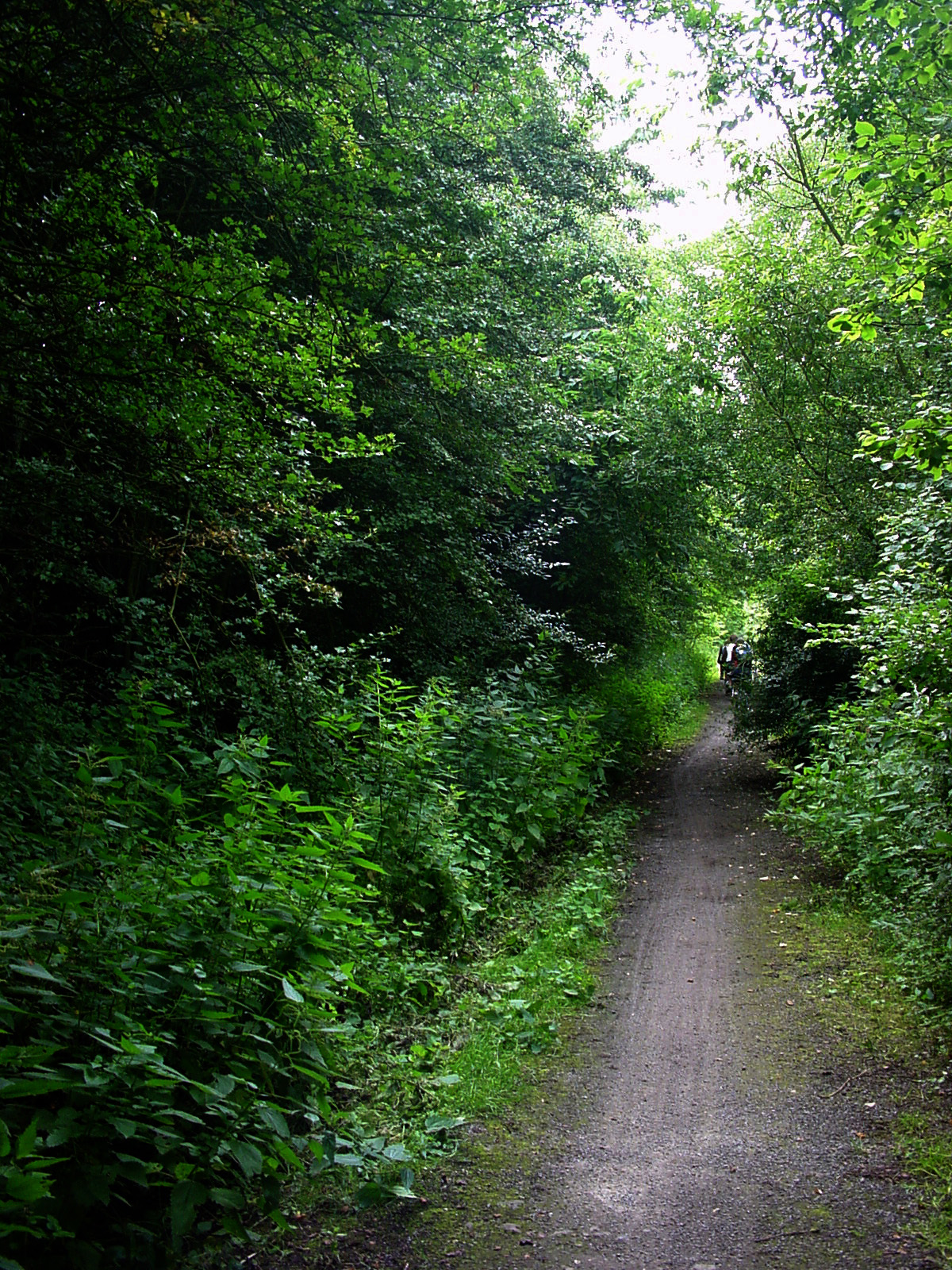 One of the former "Cavaliers miniers" (the name given to ancient railroad private coal mine in northern France). Some of these structures have now a true value of "biological corridor" and are classed as a part of the "ecological network of the "bassin minier". Others have been converted into trails for walking (pedestrians, horses, bicycles)